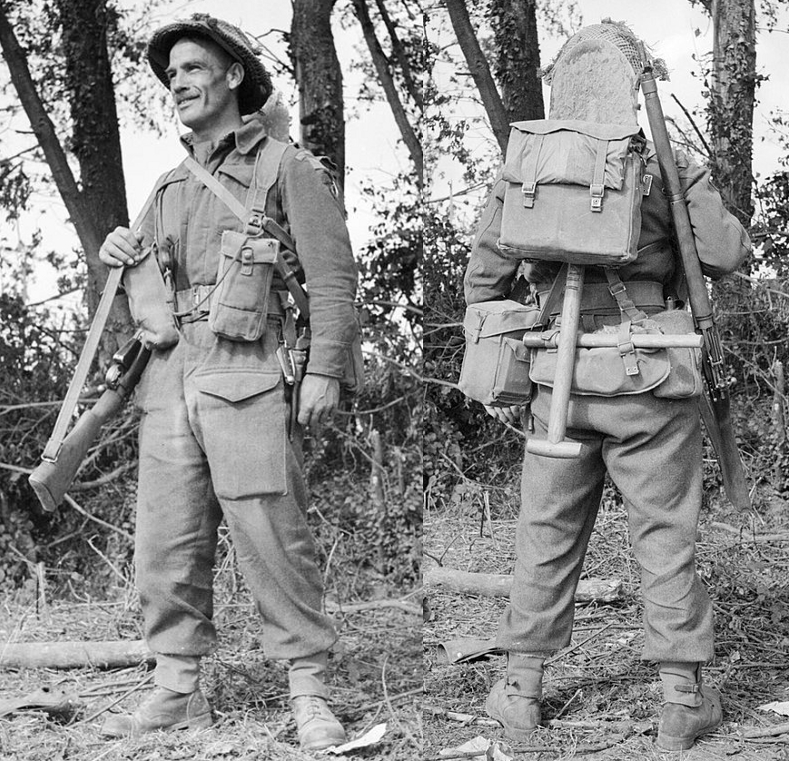 Fusilier Tom Payne from 11 Platoon, 'B' Company, 6th Battalion, Royal Welsh Fusiliers, Normandy, 12 August 1944. Front and rear views